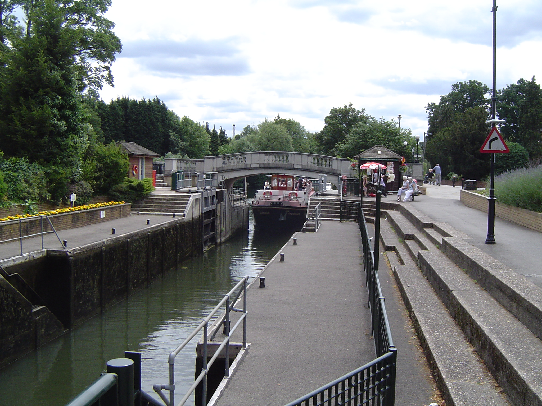 Boulters Lock River Thames